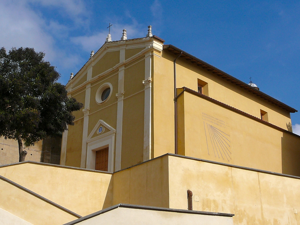 The recently restored church of San Antonio, in Capena. The image was taken with a Panasonic Lumix DMC-TZ1.